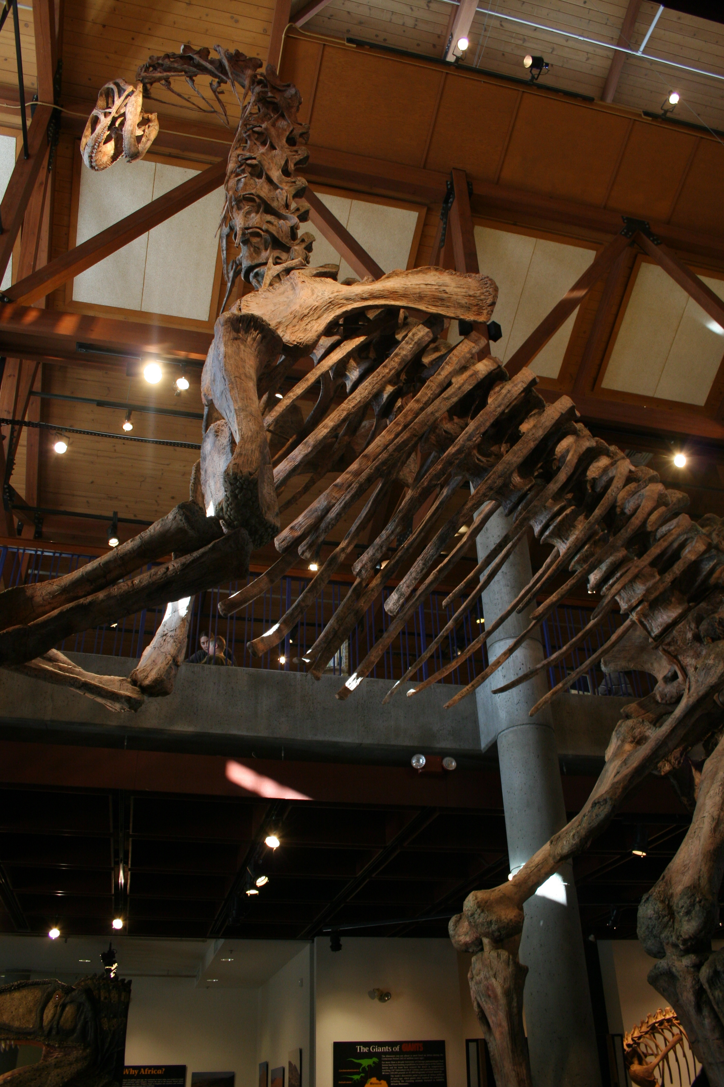 Dinosaur skeleton at the Montshire Museum of Science.